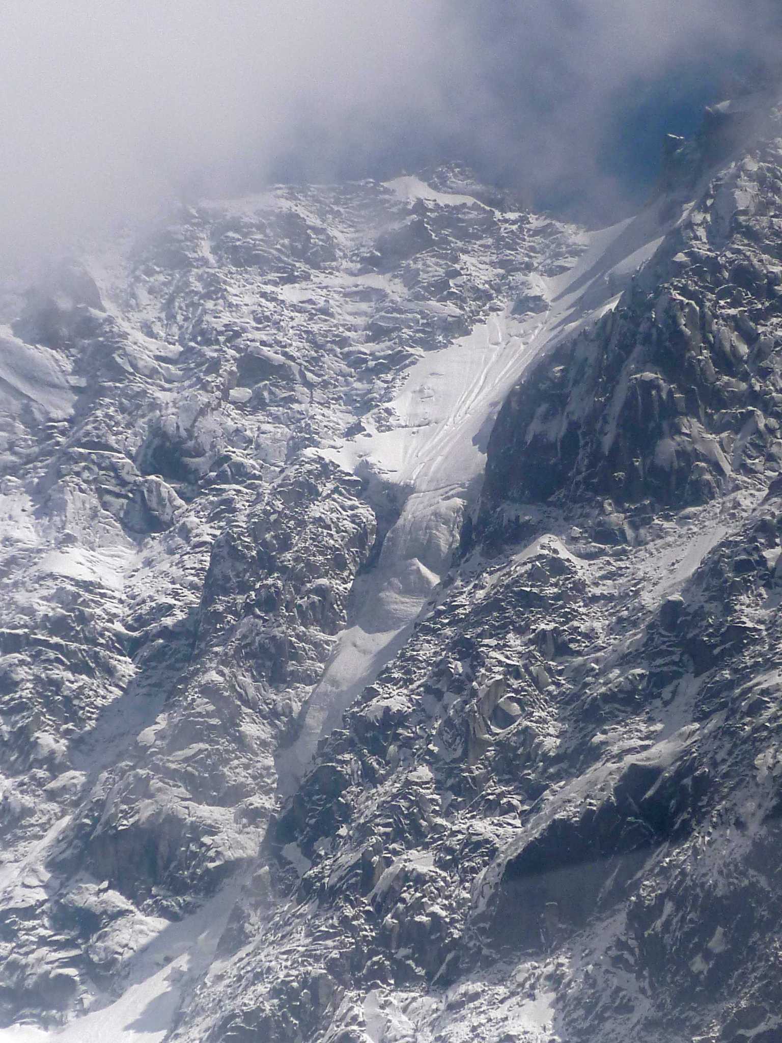 Pèlerins Glacier, Chamonix-Mont-Blanc, Haute-Savoie, France